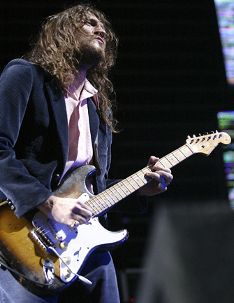 John Frusciante promotional photo for Letur-Lefr